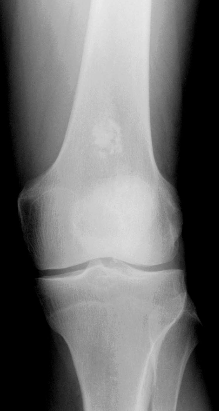 X-ray showing an Enchondroma in the thigh bone.